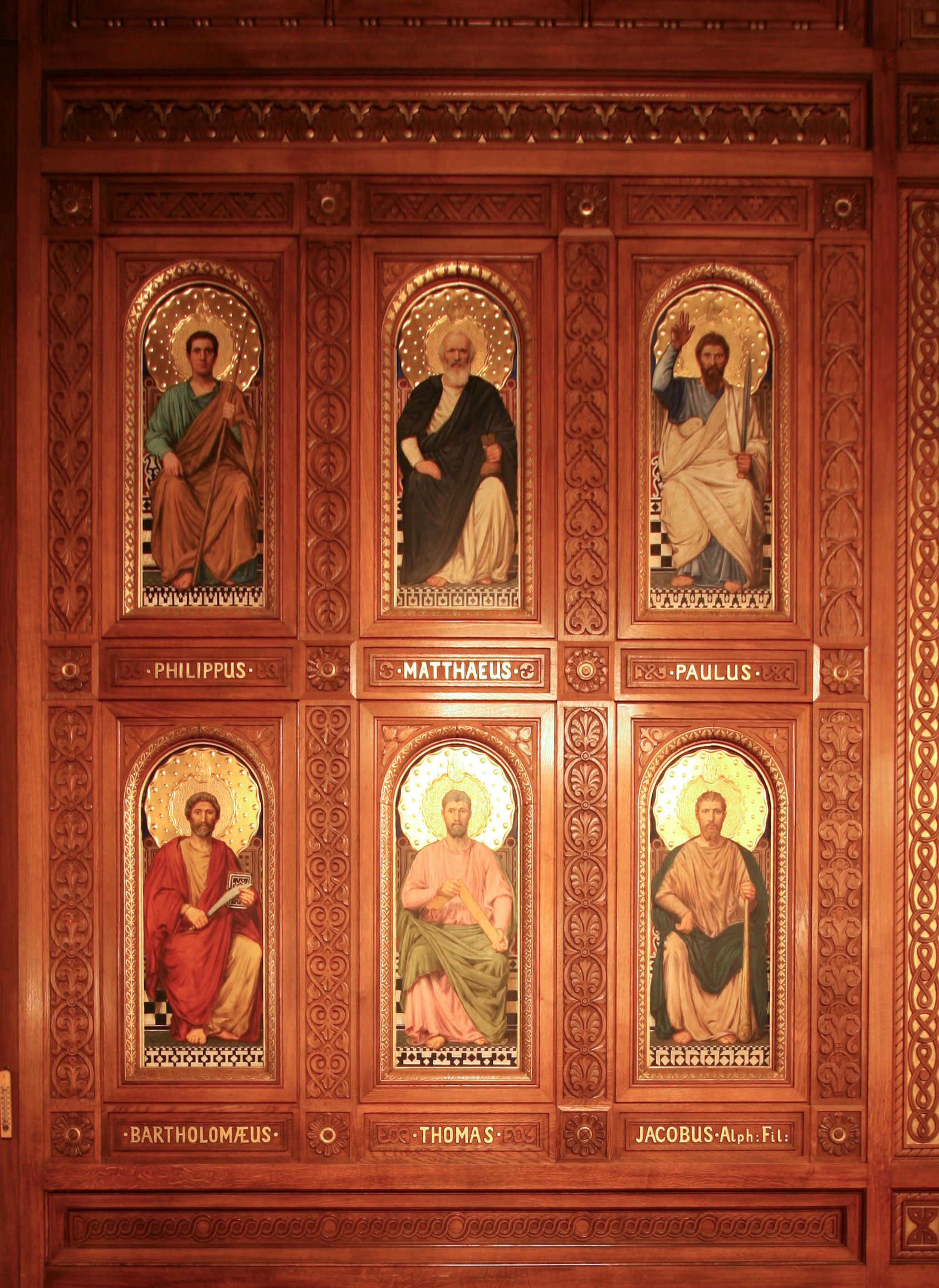 Jesuskirken, Valby, Copenhagen, Denmark North wall decorated with the twelve apostles. Left side.